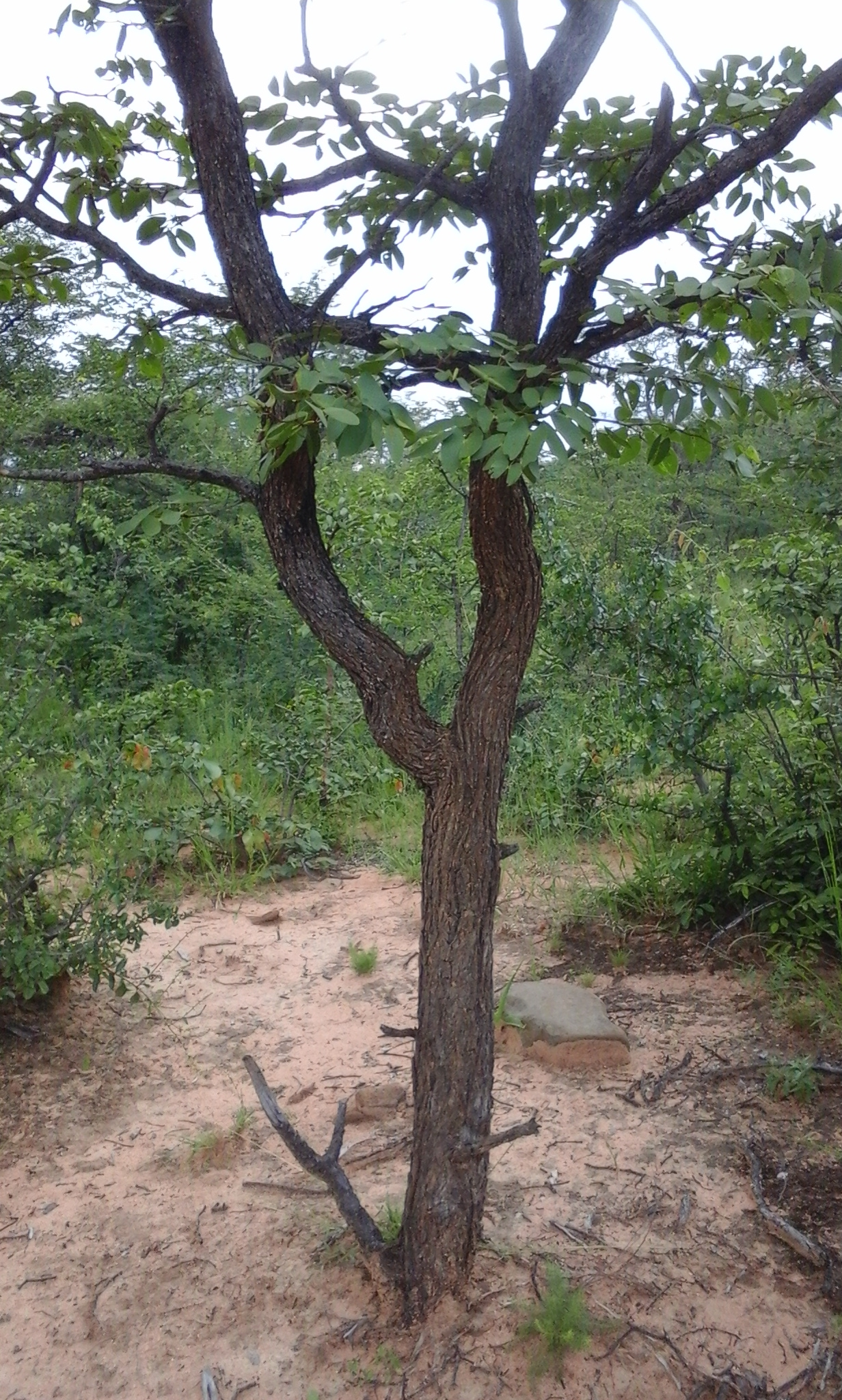 The Mophane tree